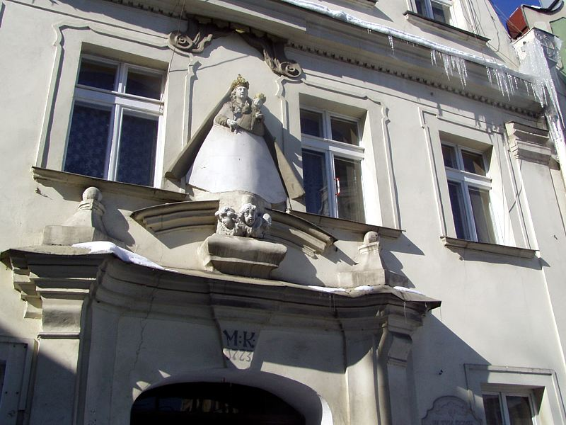 Michael Klahr's home in Lądek-Zdrój (Poland)